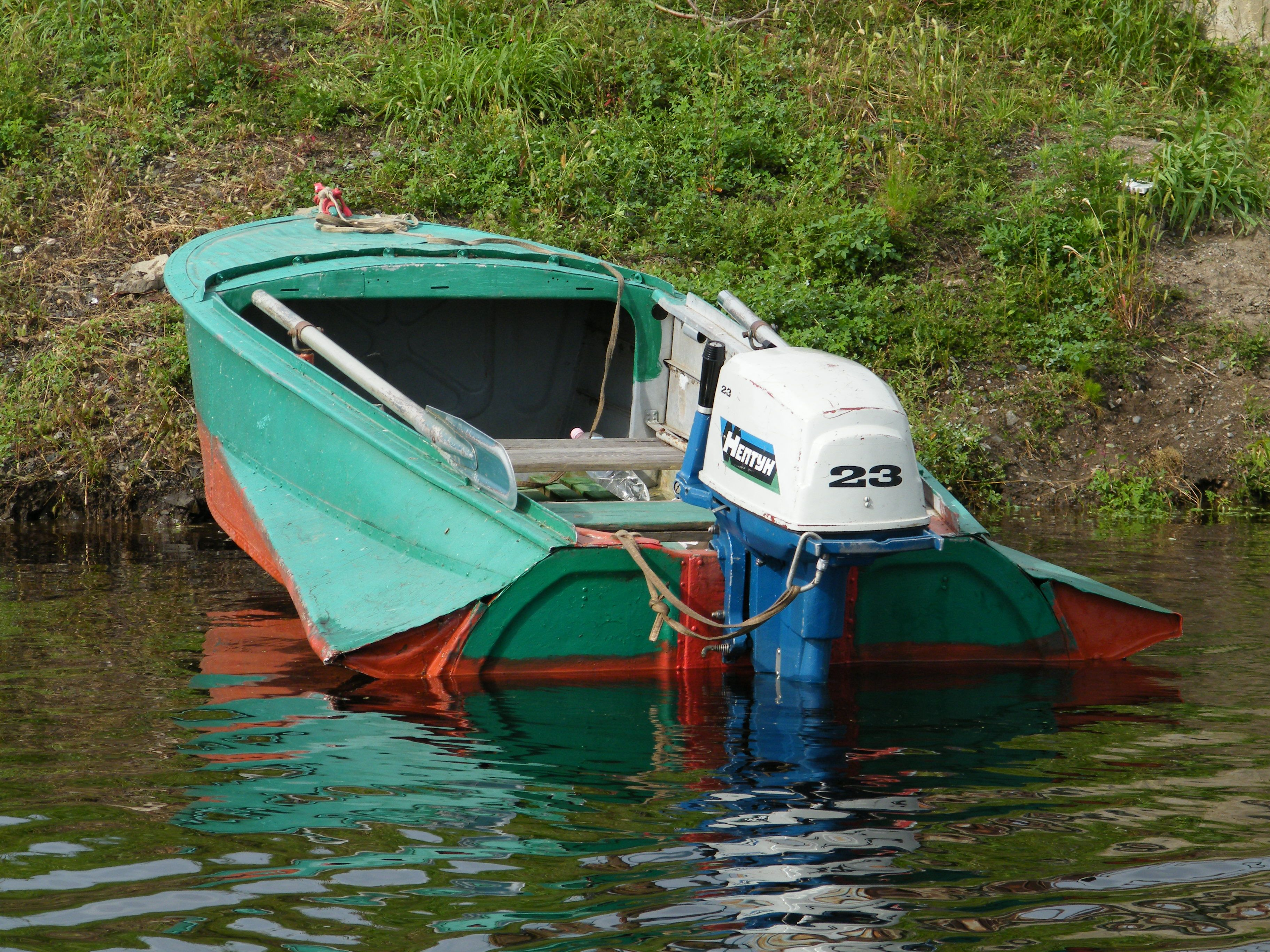 Казанка с булями и Нептун-23